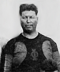 1922 photo of St. Germaine on the Oorang Indians football team. This marked St. Germaine's only year playing in the NFL and only the first of two years for the Indians team.